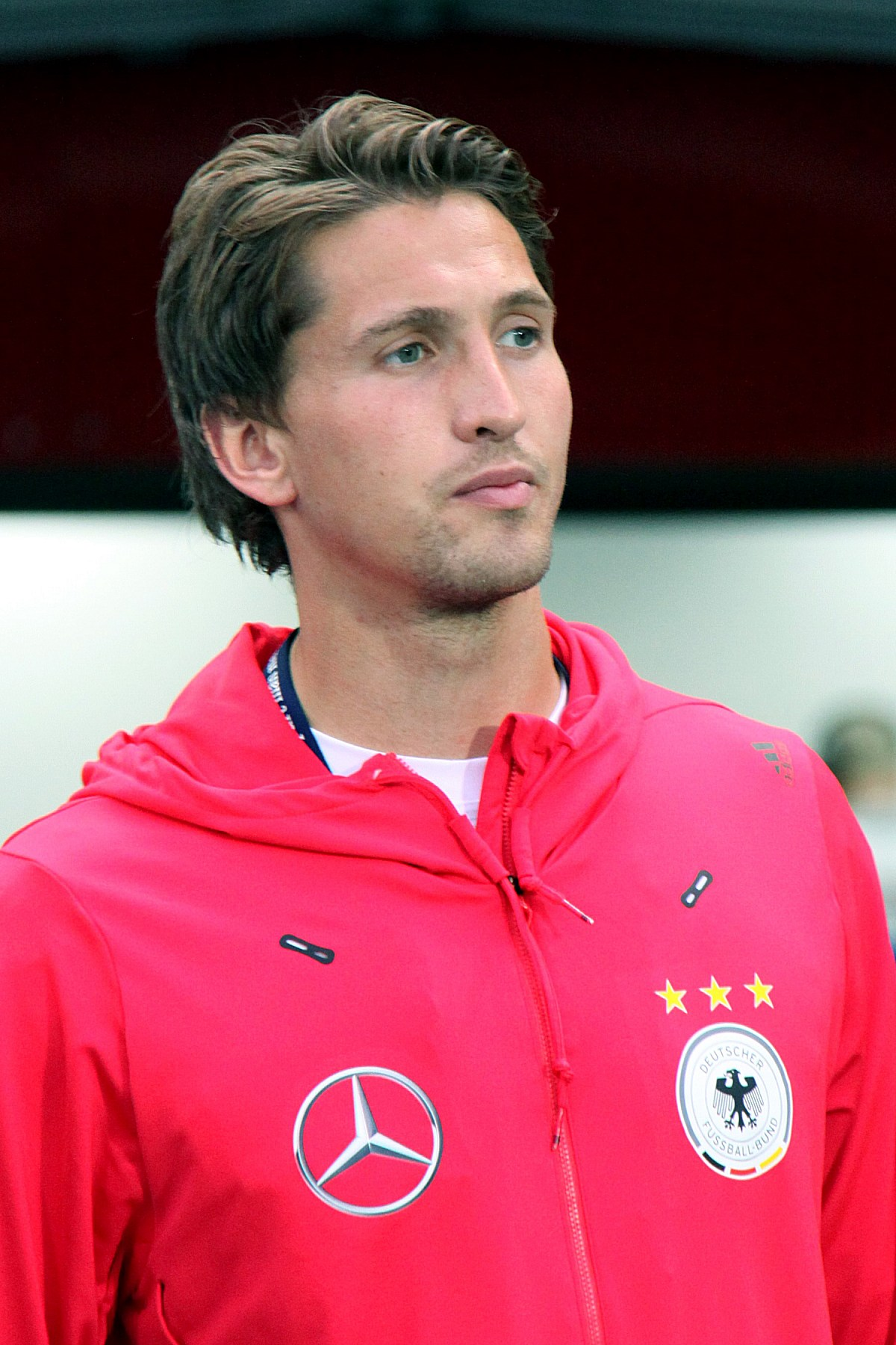 René Adler (Bayer 04 Leverkusen), German national football team